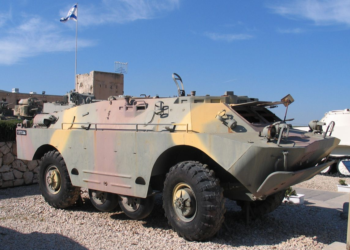 Description: Soviet BRDM-2 armored car in a command vehicle version in Yad la-Shiryon Museum, Israel. 2005. Source: Photo by me, User:Bukvoed.